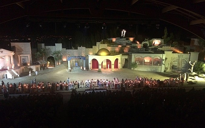 Set of the Passion Play in Sordevolo